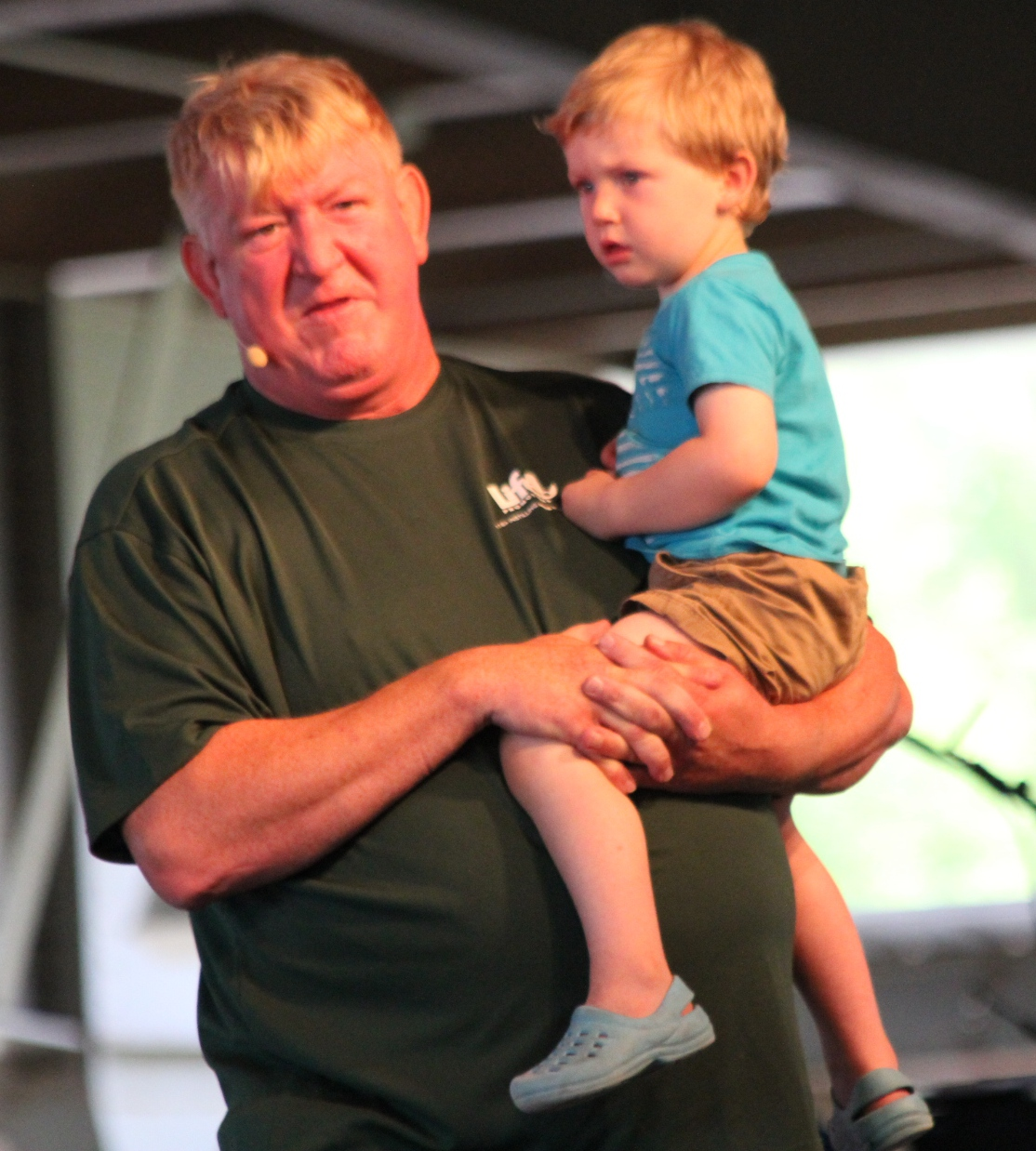 Lifest founder and organizer Bob Lenz speaking as he closed the 2014 Lifest. He is a Christian speaker.